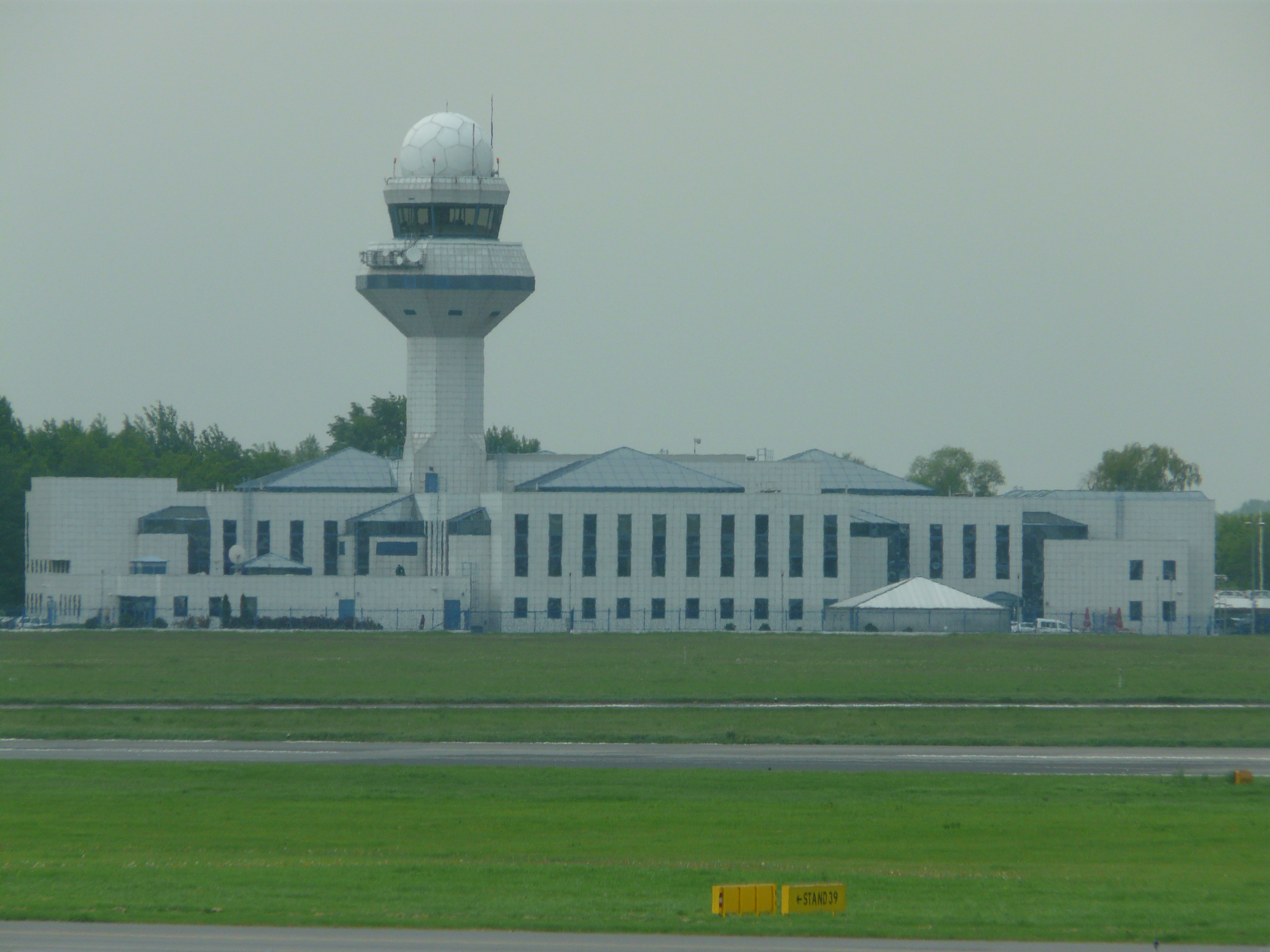 Warsaw Frederic Chopin Airport, radar towers